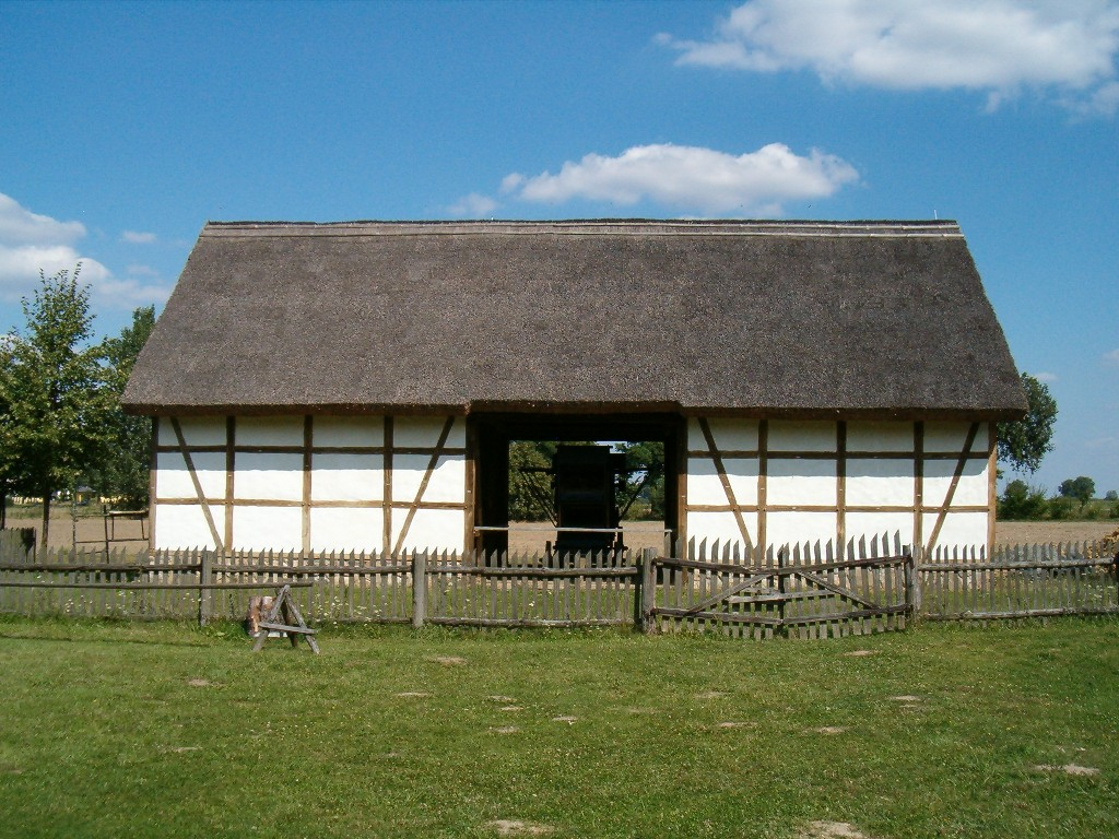 barn in Dziekanowice Poland